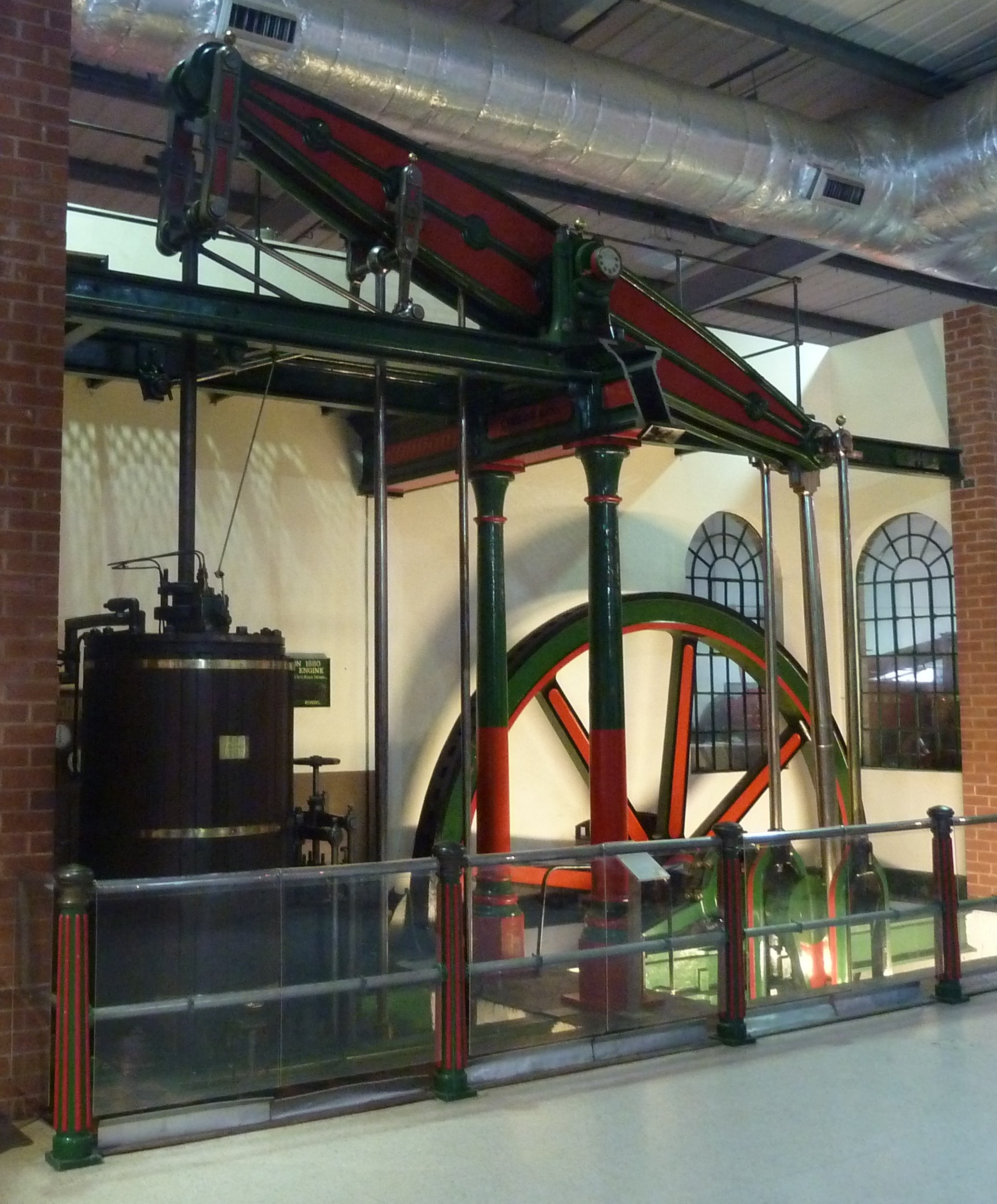 Gimson of Leicester beam engine of 1879